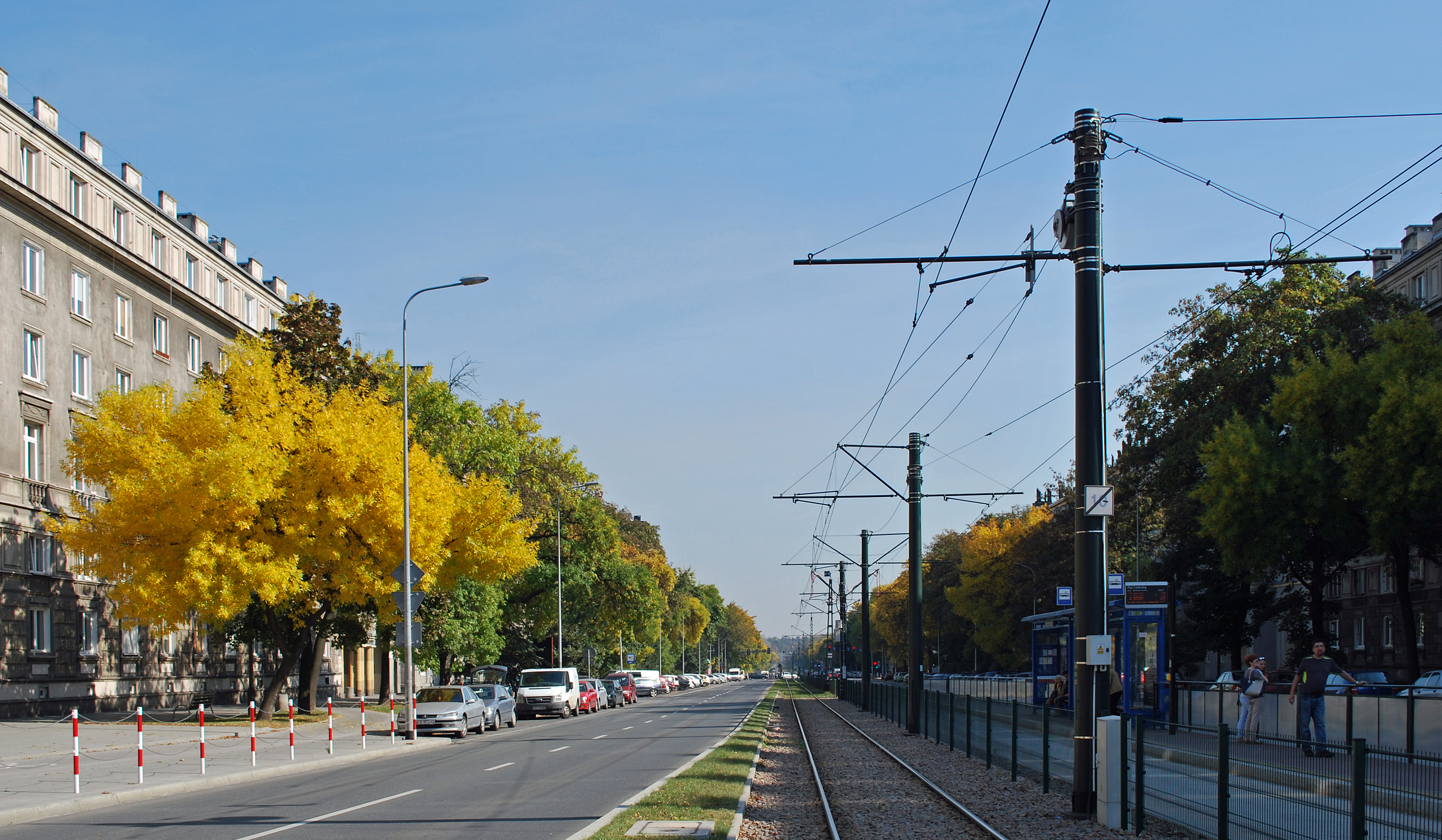 Solidarity Alley, Nowa Huta, Krakow, Poland